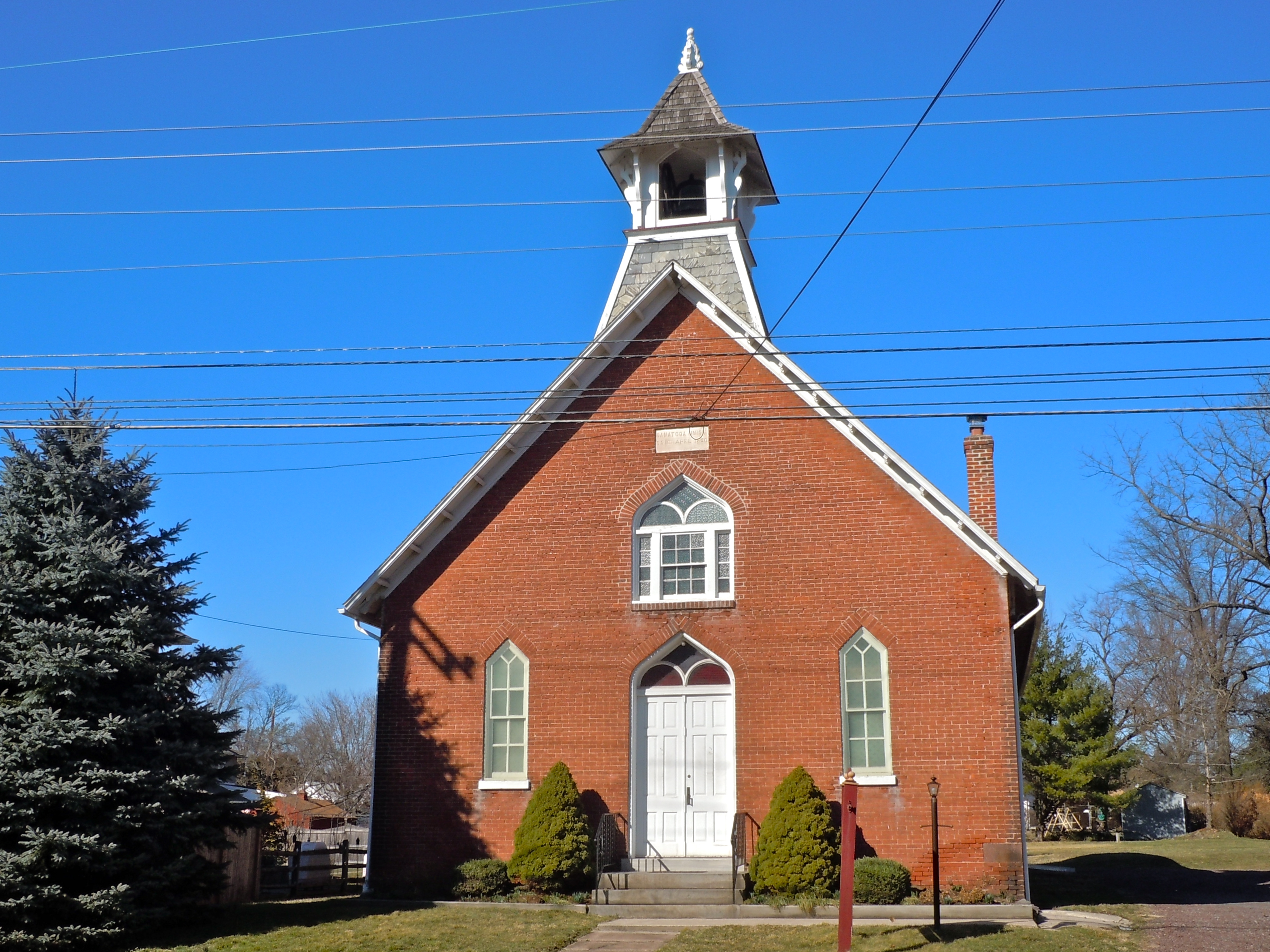 Sanatoga Union Sunday School on the NRHP since August 4, 2004. At 2341 East High Street, Lower Pottsgrove Township, Montgomery County, Pennsylvania - near Pottstown.